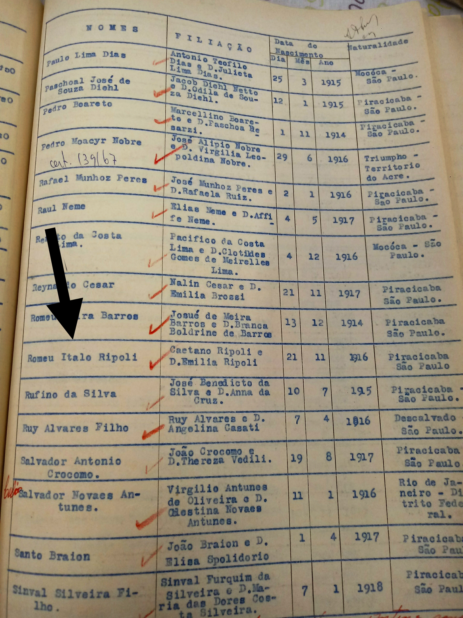 Romeu Italo Ripoli in the Army.